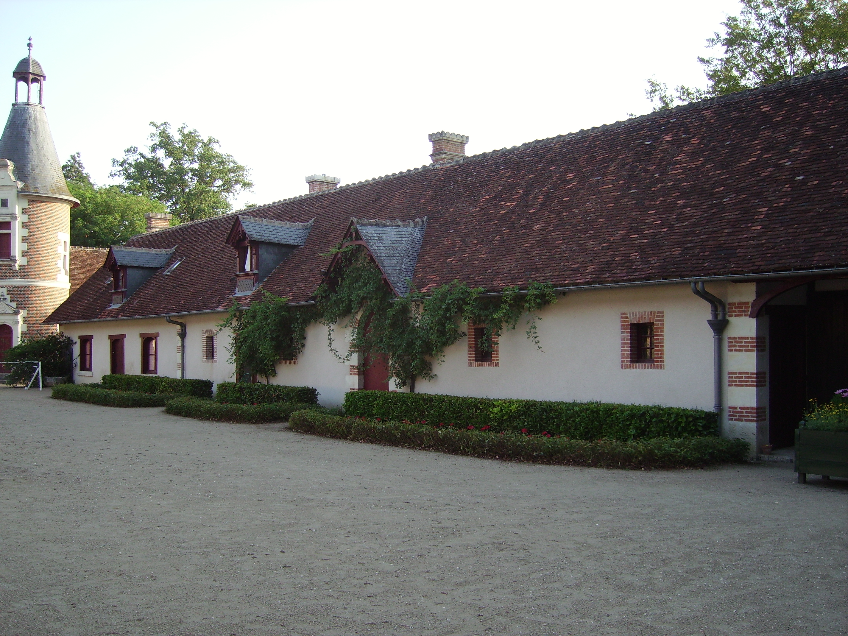 Château of Troussay, wing. Château de Troussay, France, Loir et Cher. communs.